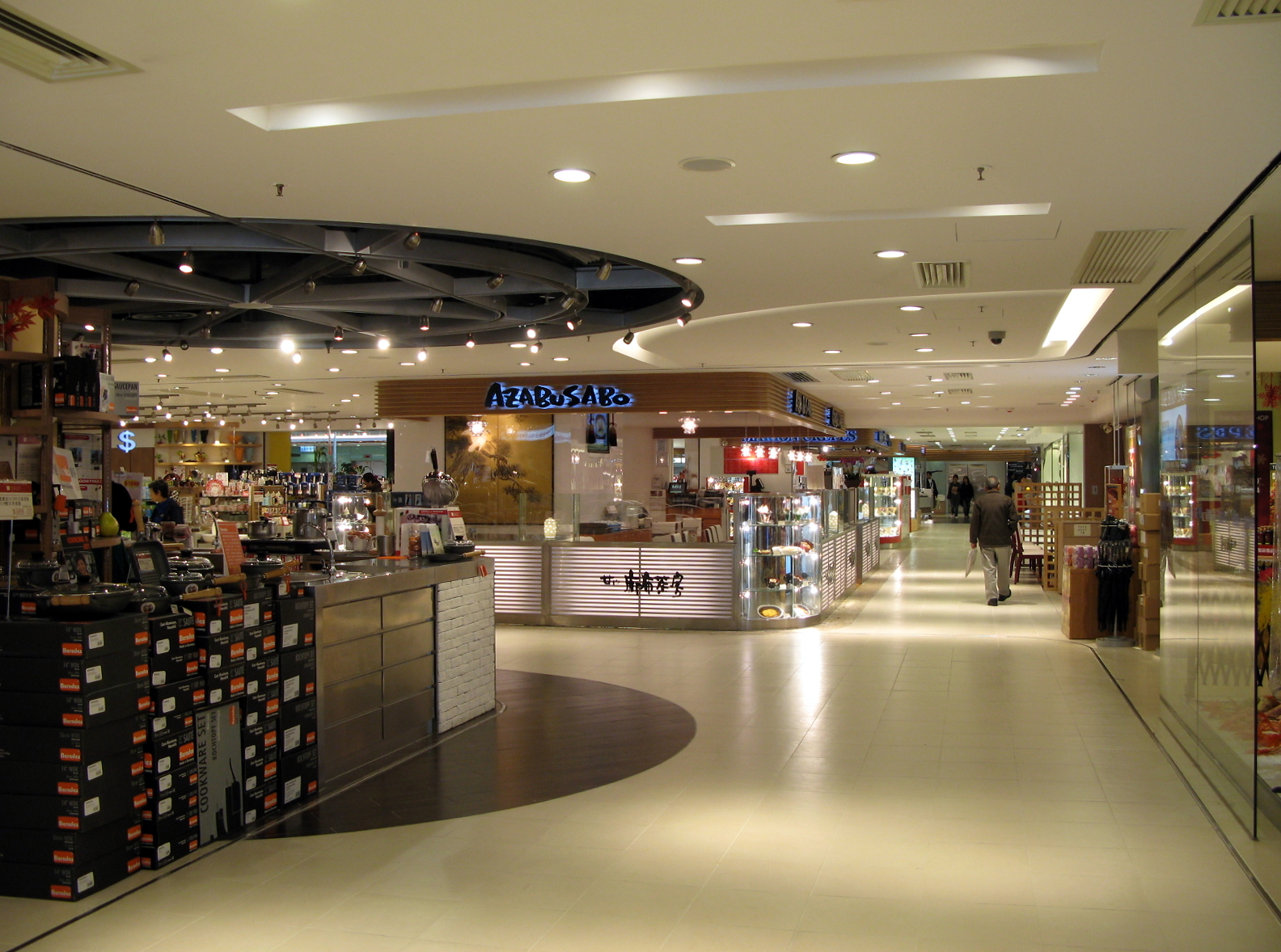 HK Seiyu Department Store Interior